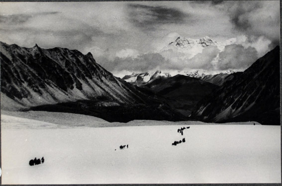 Kula Kangri (7538 m) from Moenla Karchung in Buthan or Tibet. Border is disputed. Photograph by Frederick Williamson (1891-1935 [1]) taken July 31, 1933.